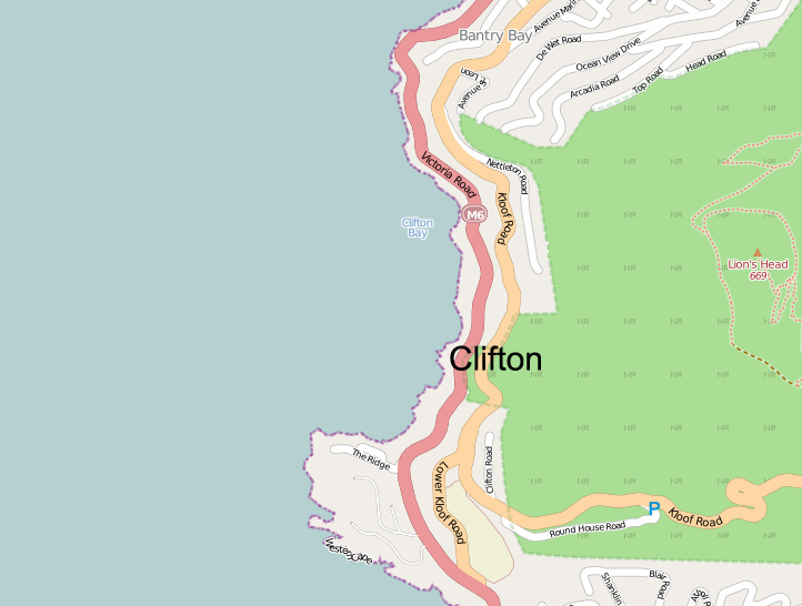 This map of Clifton in Cape Town was created from OpenStreetMap project data, collected by the community This map may be incomplete, and may contain errors. Don't rely solely on it for navigation.